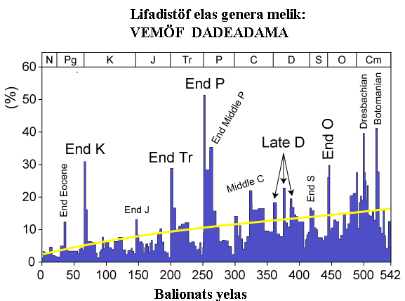 Volapük translation of a picture already available in the Commons